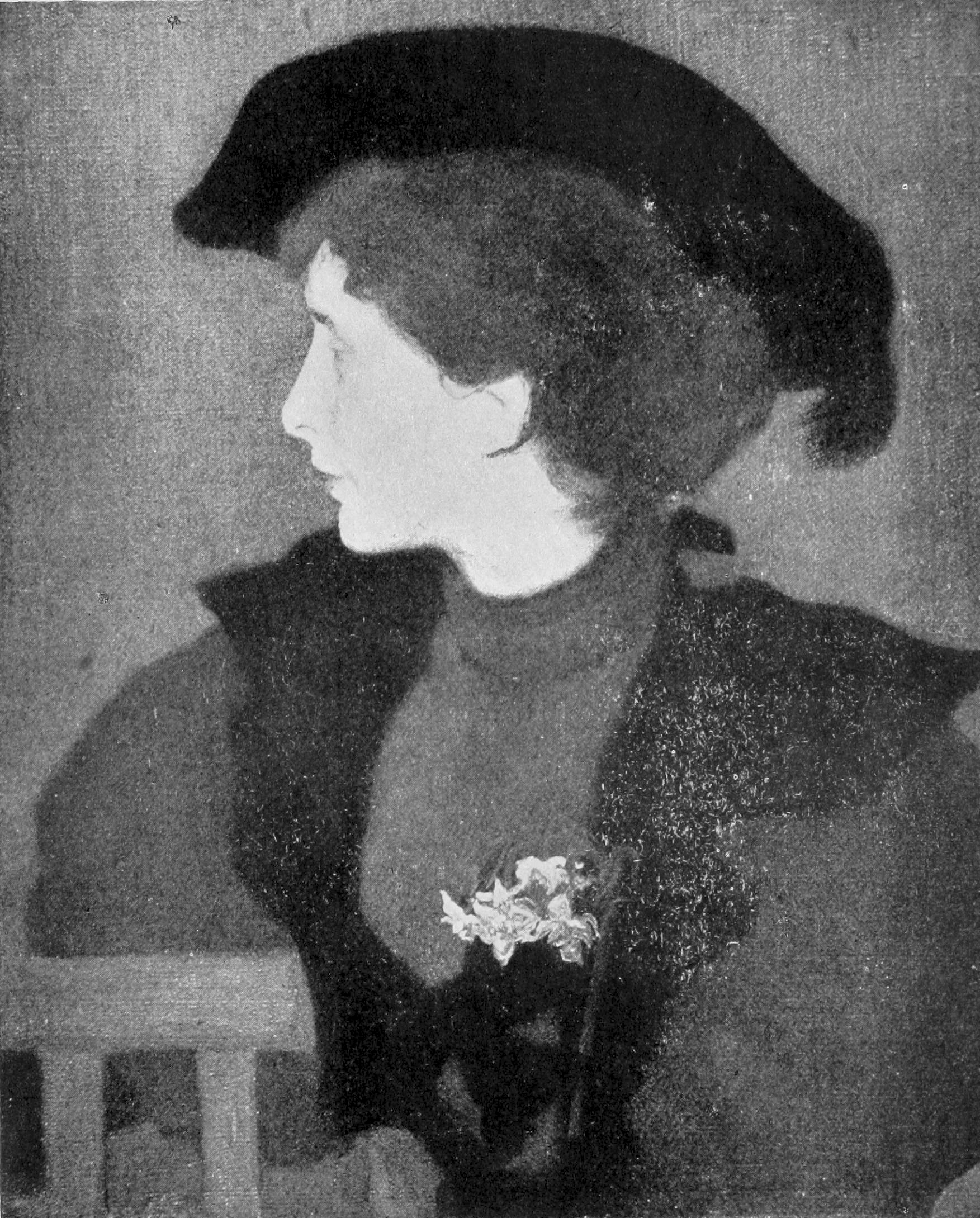 Illustration from Volume 1 of The Yellow Book, "Portrait of a Lady"